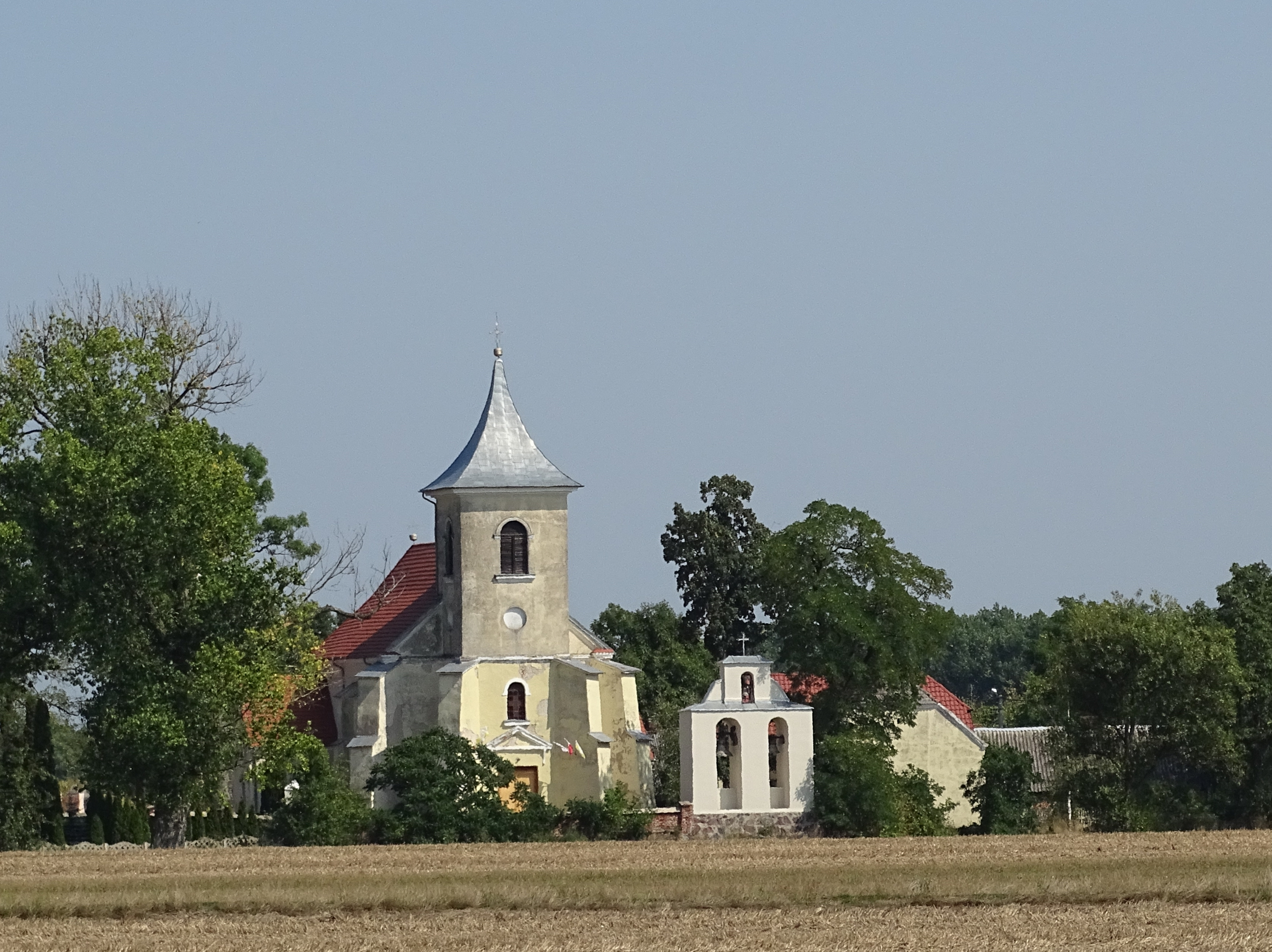 Myslibórz, Greater Poland. Church of Saint Matthew. Erected in the XVI century. Rebuilt a few times.